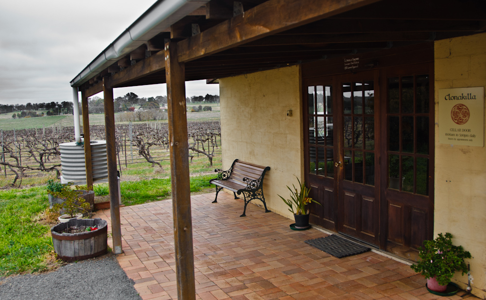 The entrance to the Clonakilla Cellar Door in 2010.